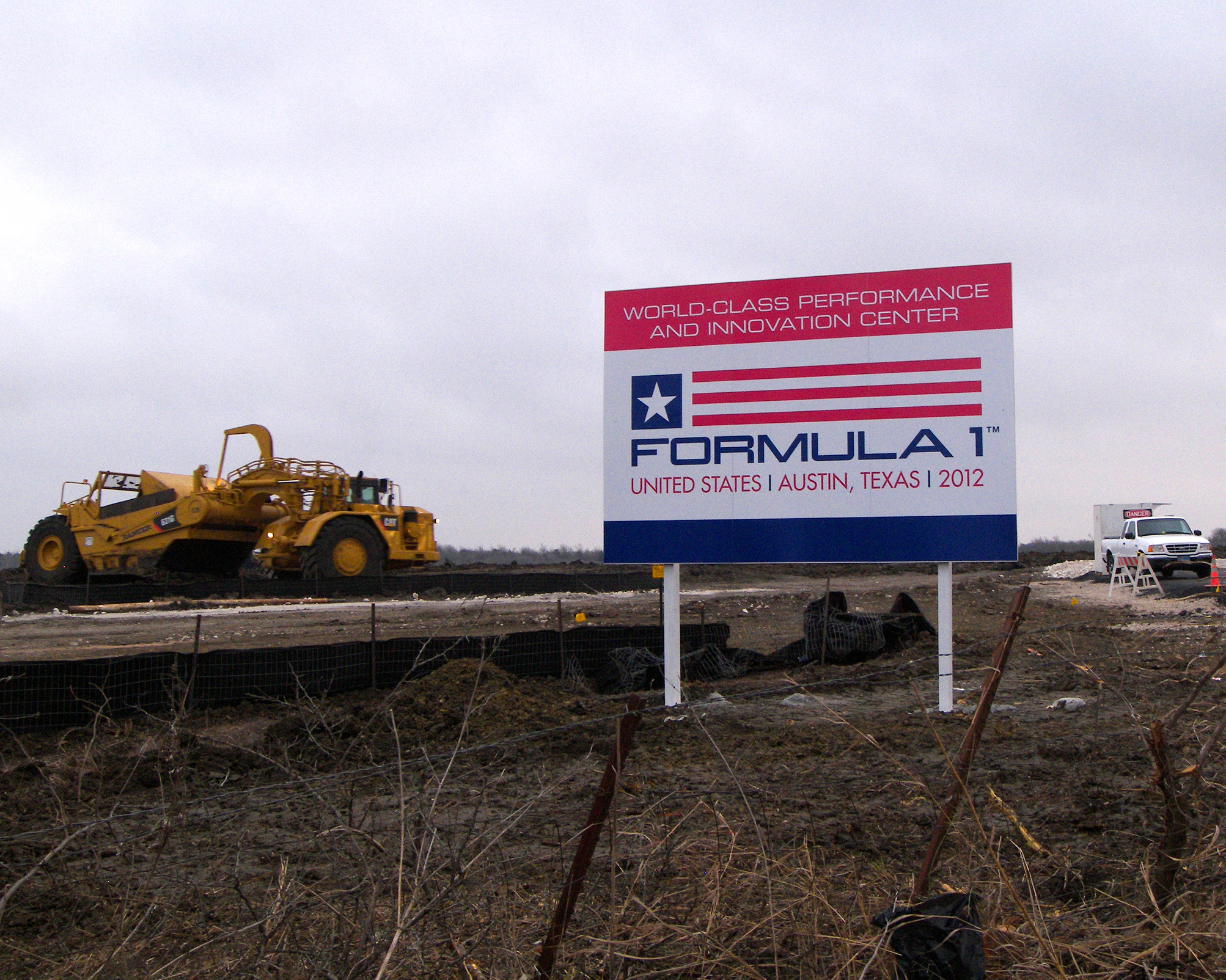 A new sign and major grading work at the new Austin Formula One Circuit that will host the United States Grand Prix beginning in 2012.